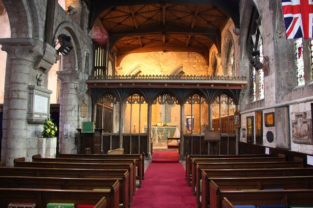 South Aisle Early English, late 13th century south aisle to St.Mary & St.Martin's church